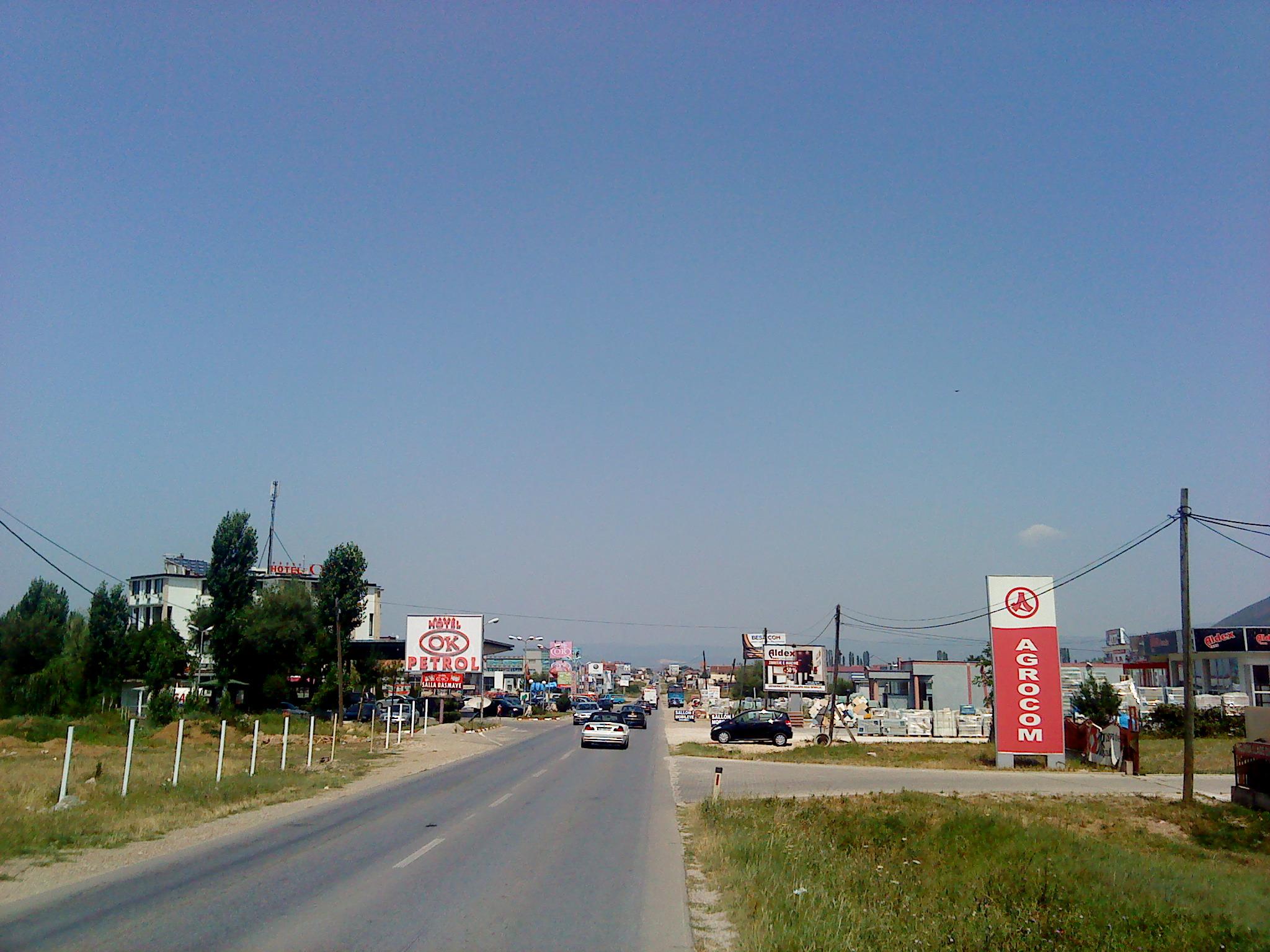 The National street M2 in Kosovo east of Prizren